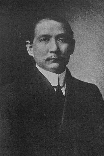 Sun Yat-sen Bân-lâm-gú: Sun Bûn. 孫文